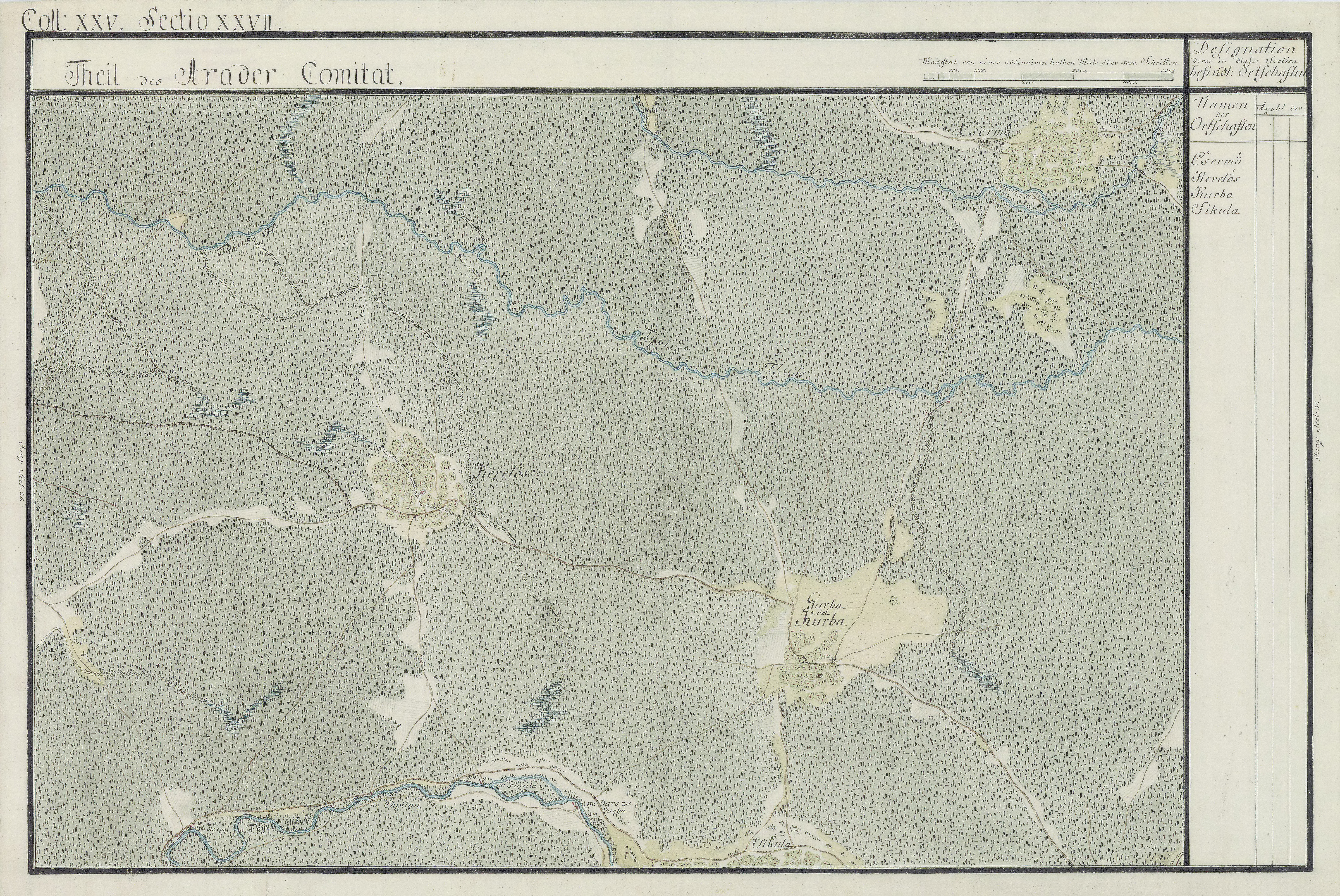 Arad County, 1782-85. Josephinische Landesaufnahme pg.25-27